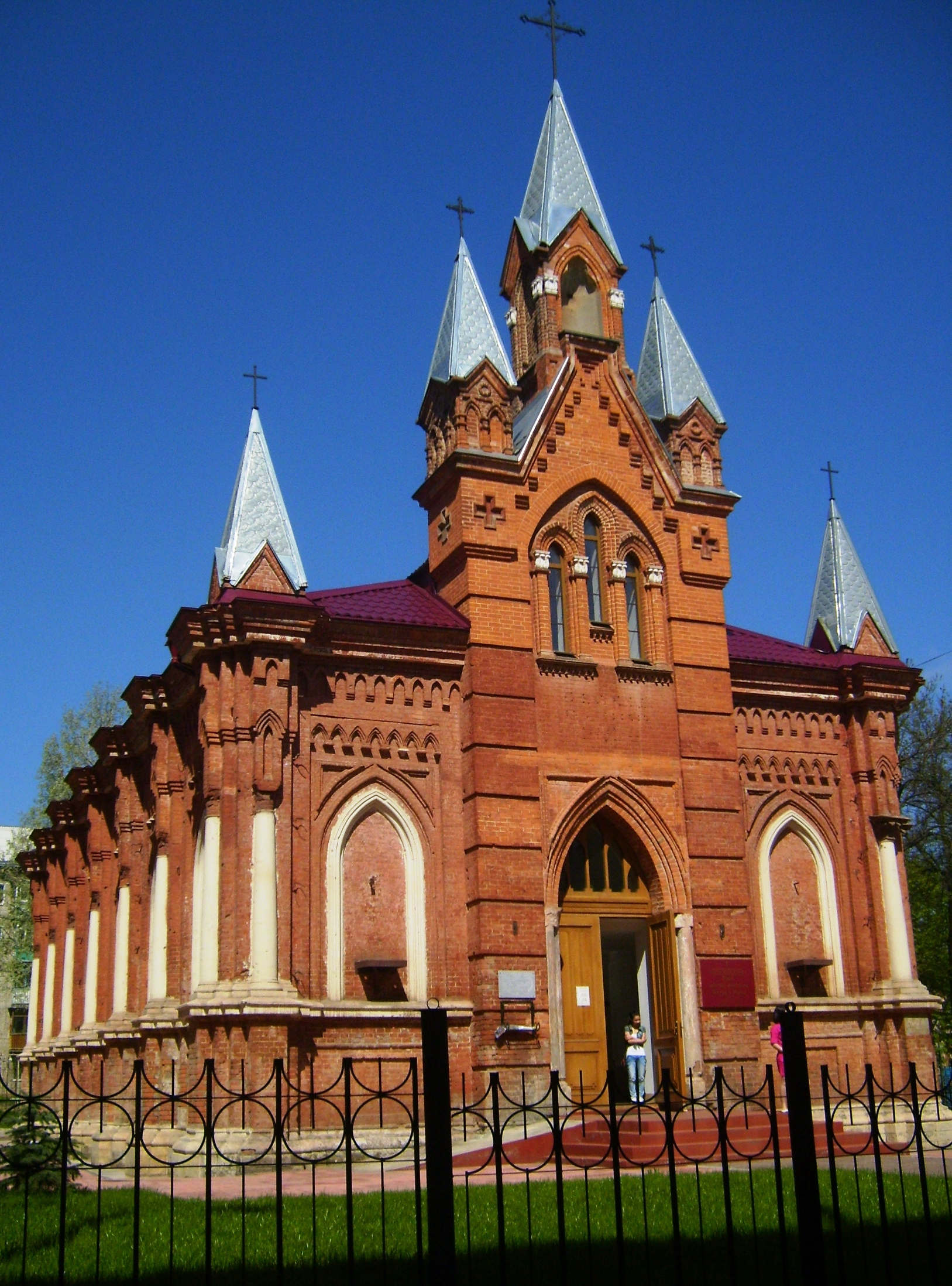 Catholic Church of Saint Peter and Saint Paul, Tula, Russia